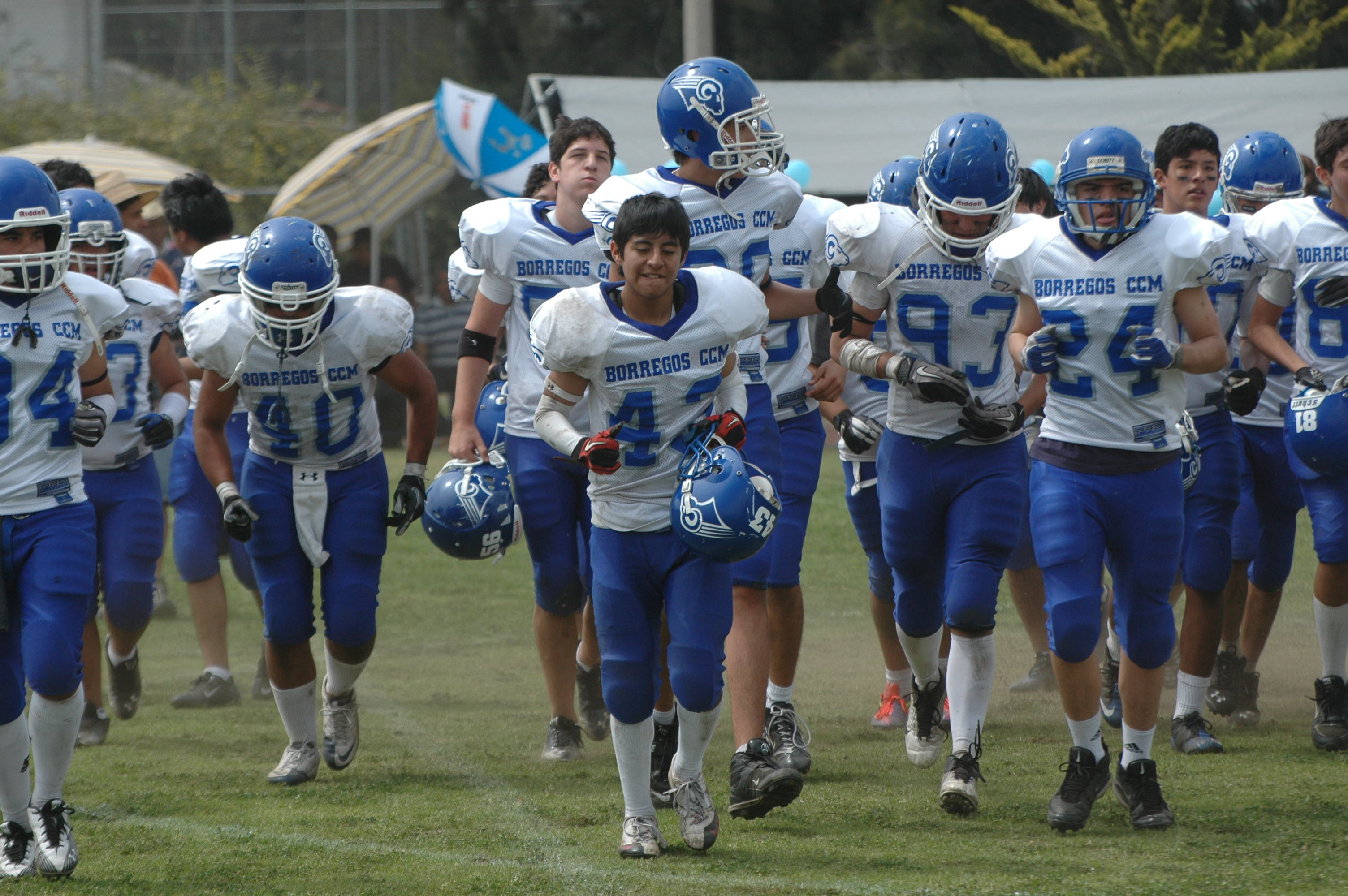 American football game between the ITESM-Campus Ciudad de Mexico youth team division A and that Gamos UMA